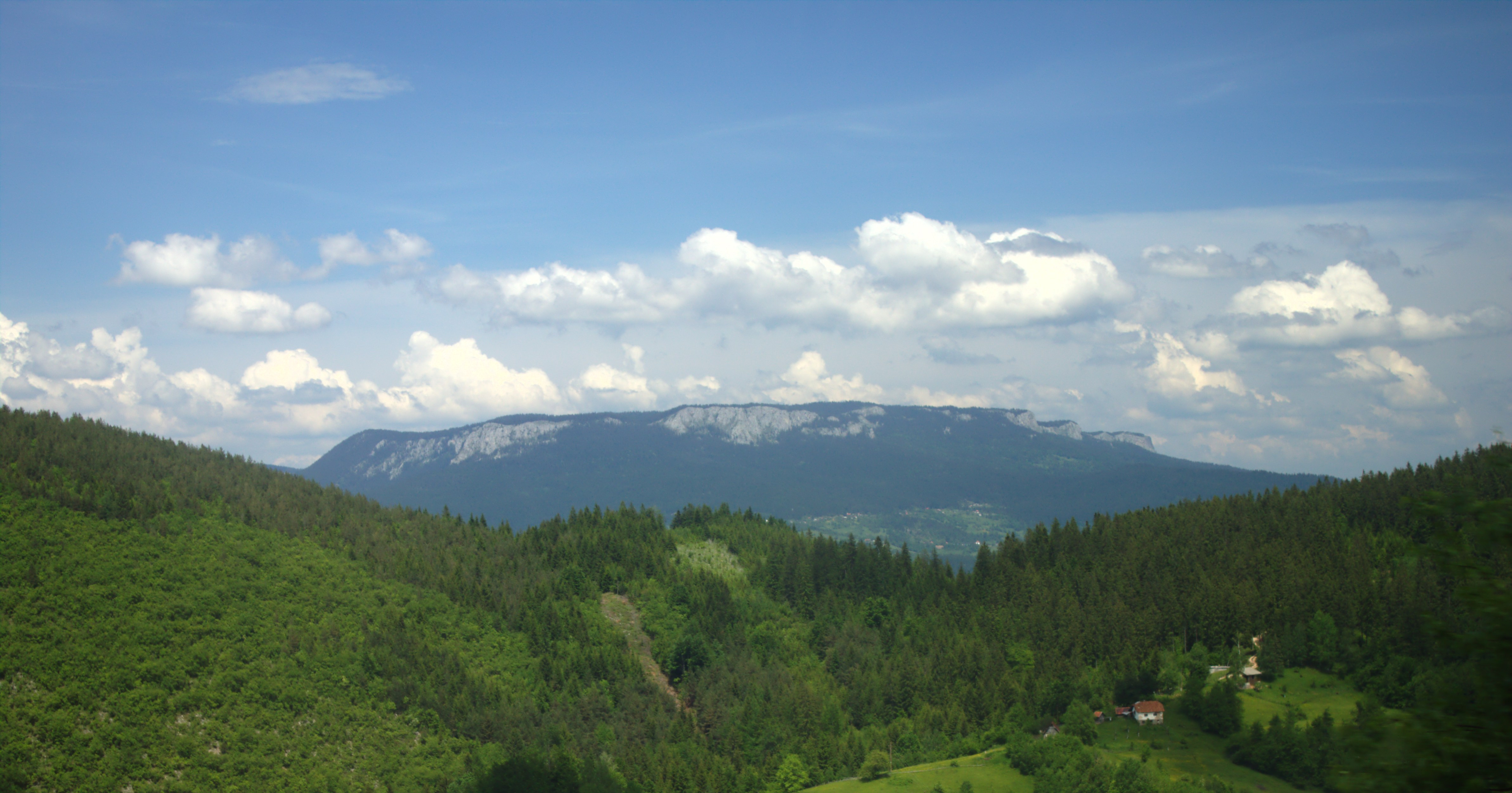 Romanija hills somewhere east from Sarajevo, Republika srpska, BiH